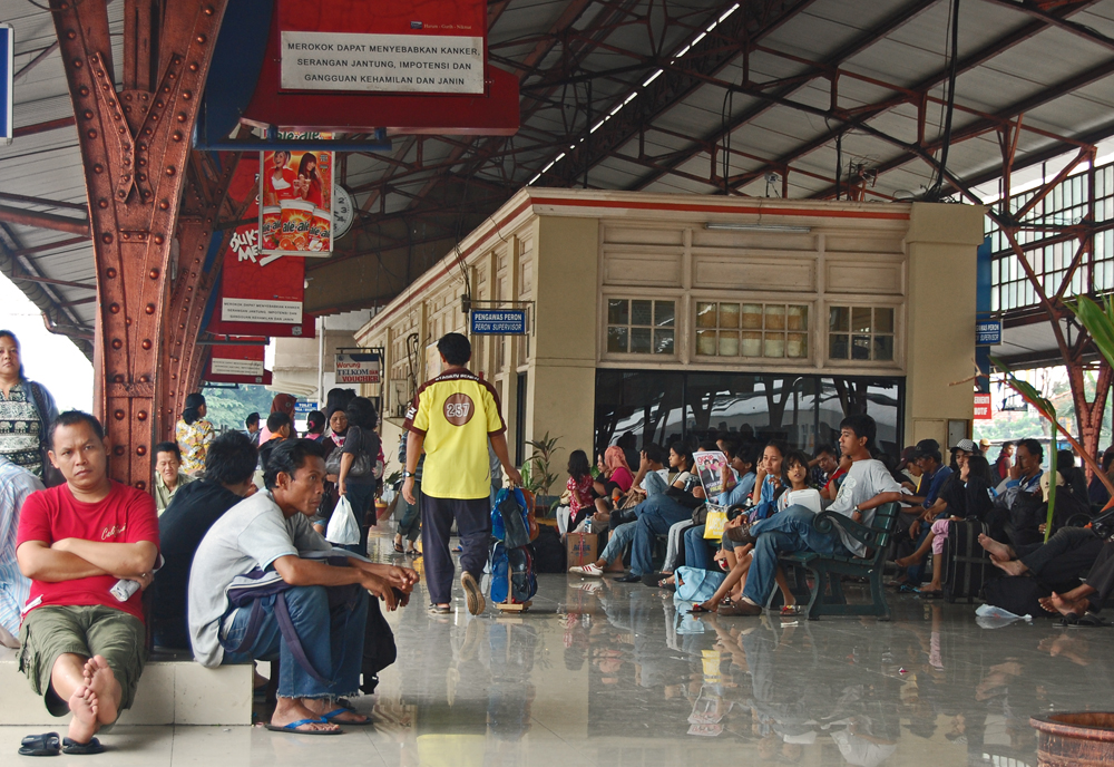 Pasar Senen (PSE) train station at Jakarta. Interior.